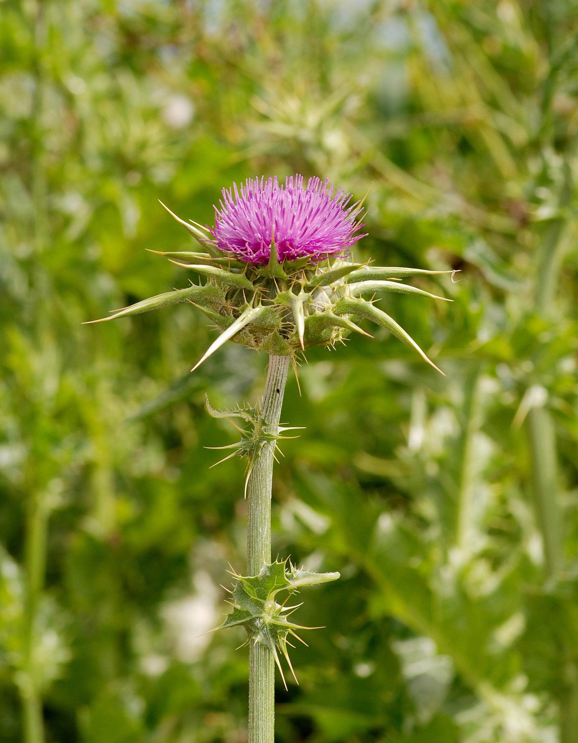 Milk Thistle (Silybum marianum)